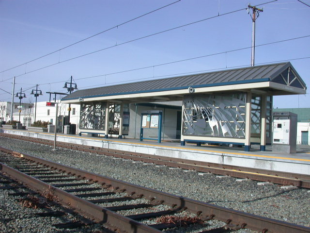 Bascom station on the Santa Clara VTA light rail system.